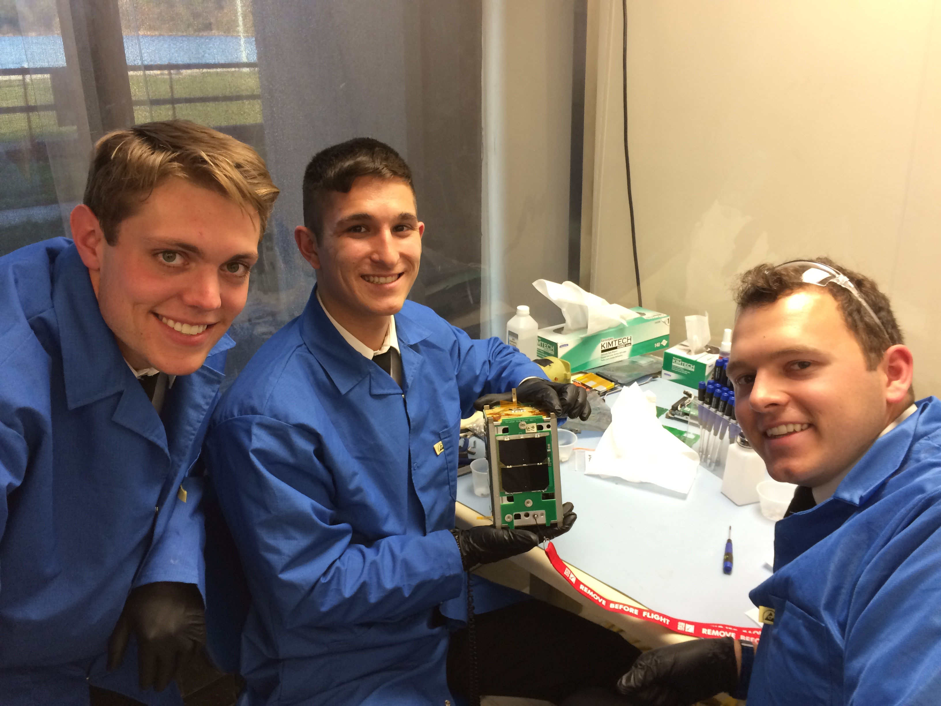 BRICSat-2 assembly with three midshipmen